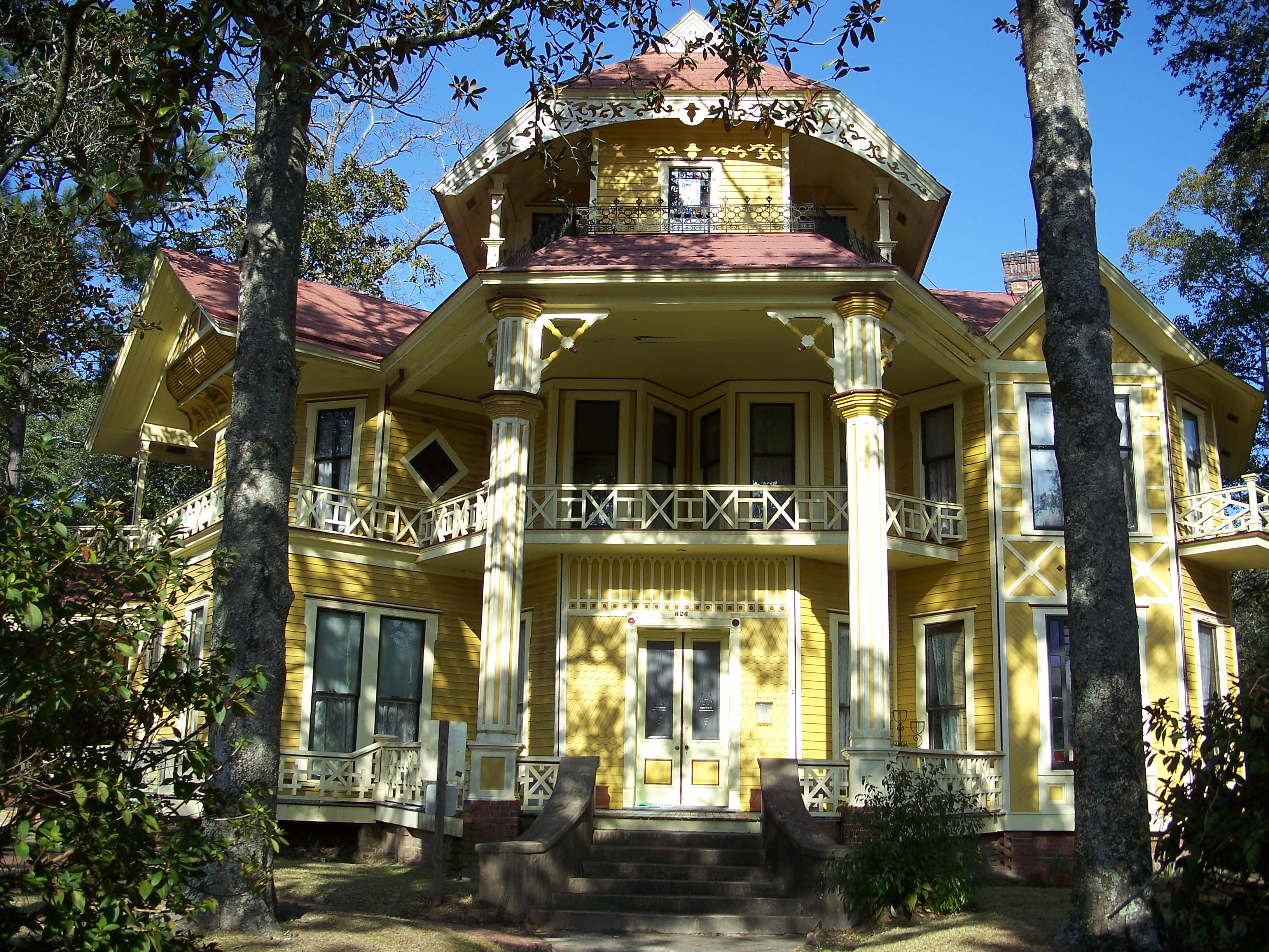 Thomasville, Georgia: Lapham-Patterson House.